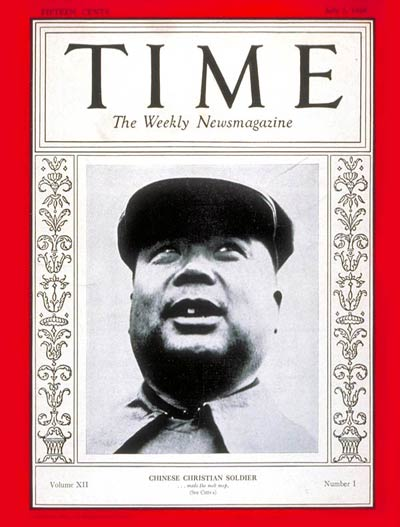 Time magazine, Vol. XII No. 1 , July 2, 1928. The cover shows Feng Yu-hsiang